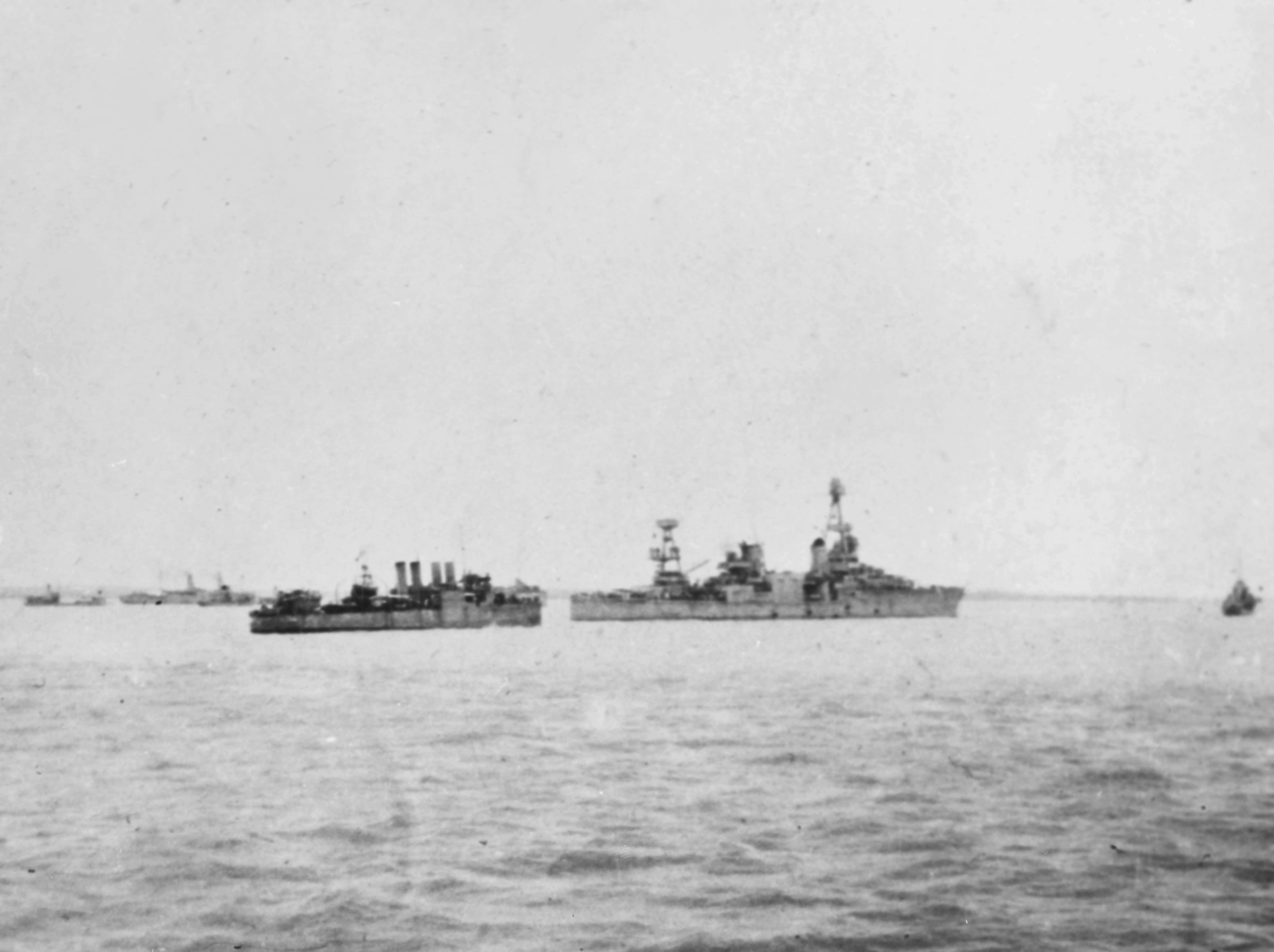 The U.S. Navy Northampton-class heavy cruiser USS Houston (CA-30) with the Clemson-class destroyer USS Peary (DD-226) at Darwin, Northern Territories, Australia on 15 February 1942. These ships, together with HMAS Swan (U74) and HMAS Warrego (U73) formed the naval escort of the convoy which made an unsuccessful attempt to reinforce the Timor garrison. Among the ships in the background, to the left, are the auxiliary minesweeper HMAS Terka (FY98) and SS Zealandia.